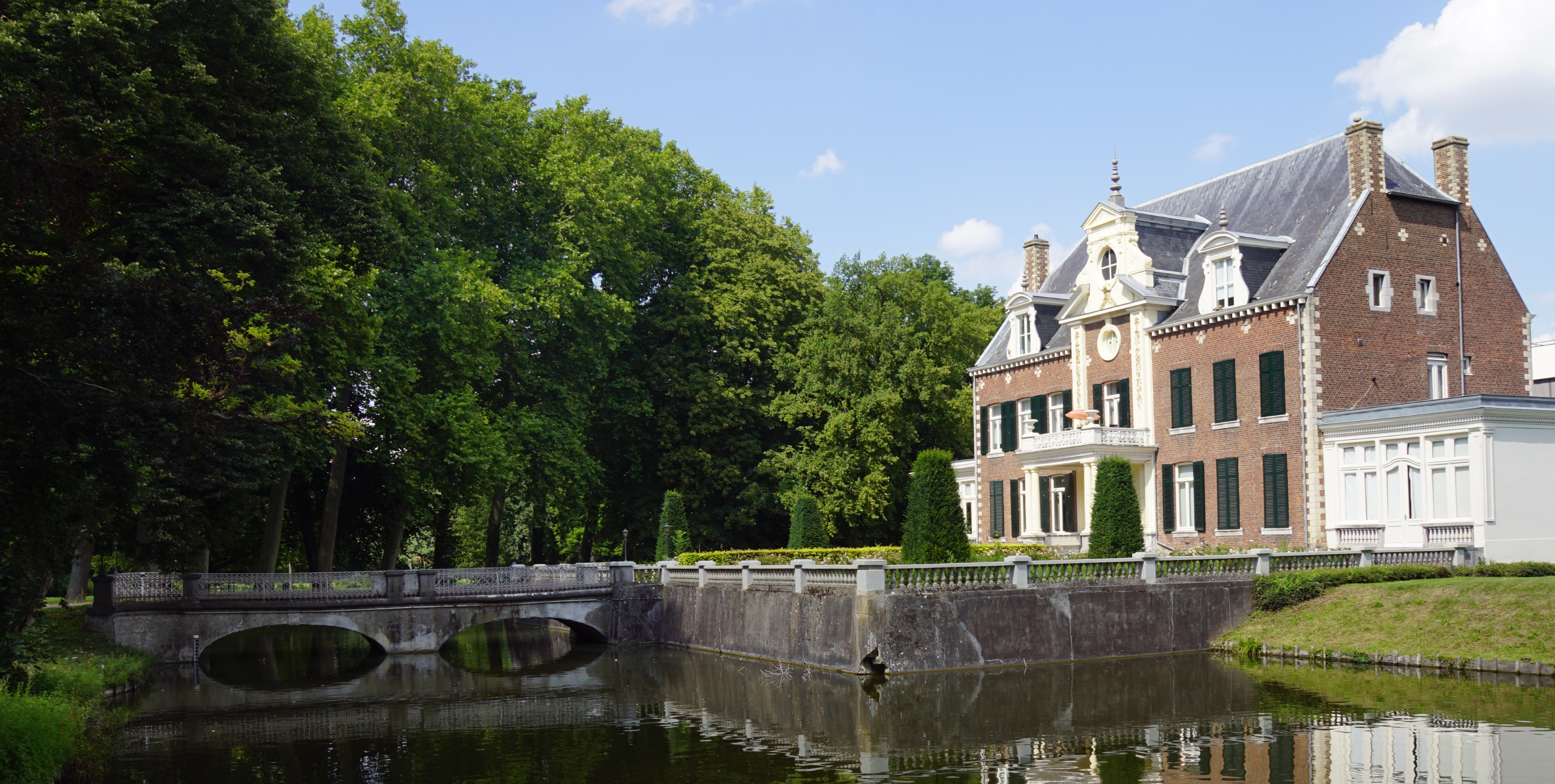 Severenstraat 200, Maastricht, The Netherlands. Huis Severen (Rijksmonument) and bridges/square (gemeentelijk monument)